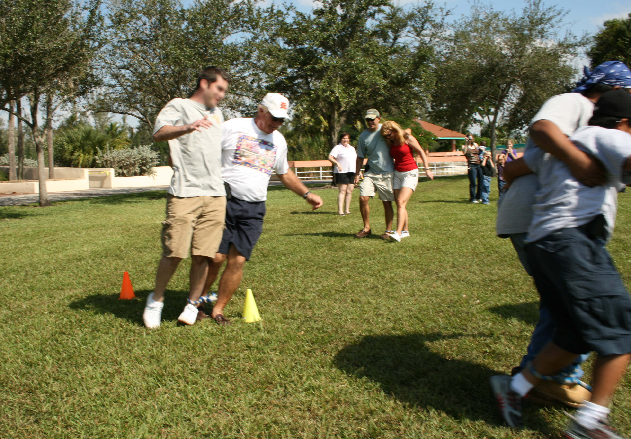 Three Legged Race